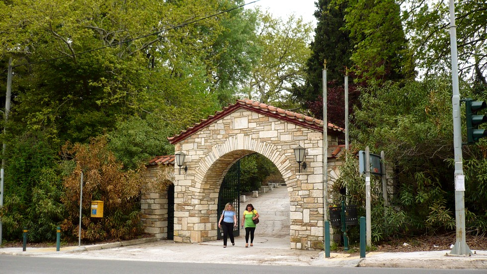 The above picture depicts the entrance of the Penteli Monastery.